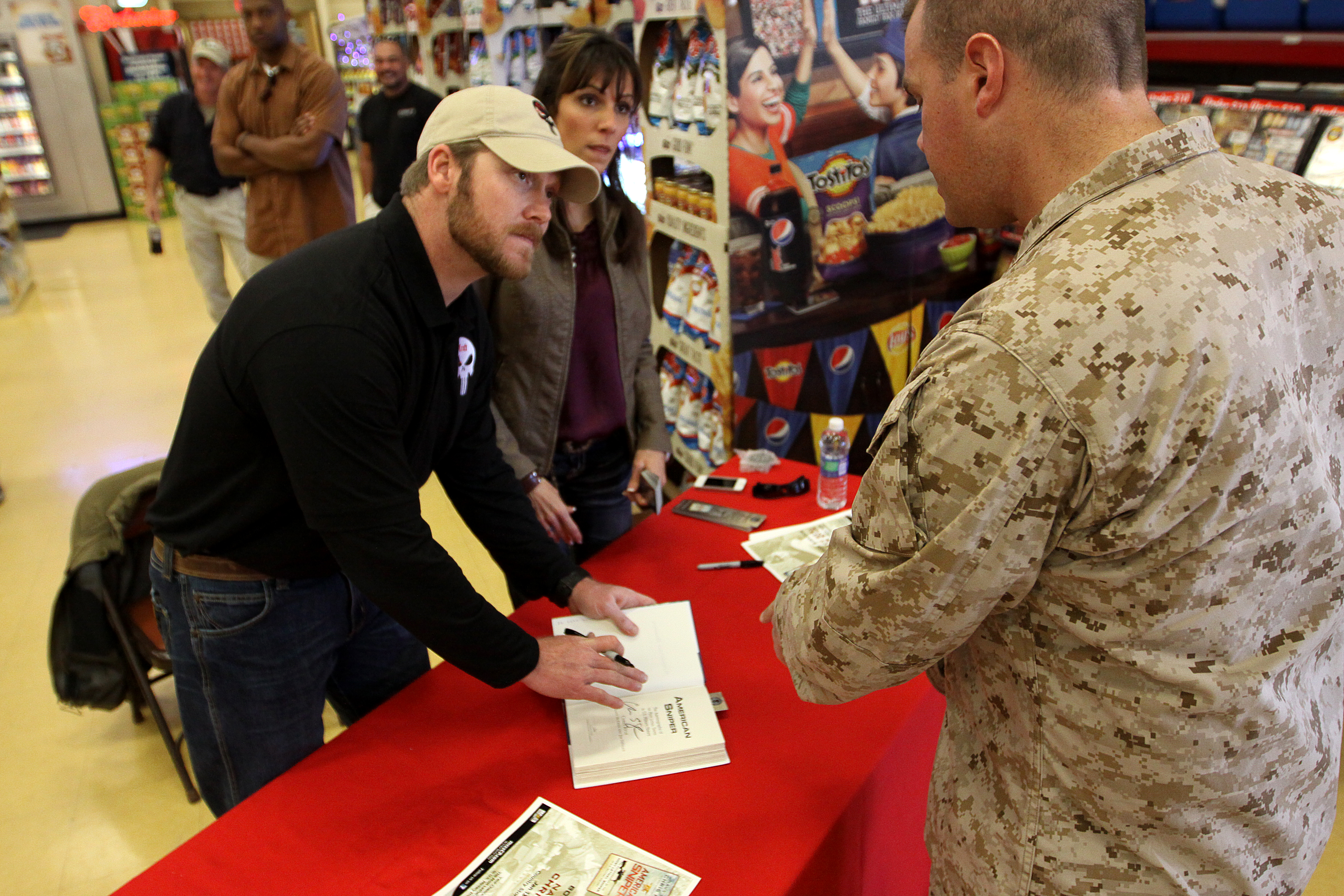 Navy Seal Sniper Chris Kyle signs a copy of his new book “American Sniper” for a Camp Pendleton sailor at the base’s Country Store, Jan. 13. “American Sniper” is Kyle's first person account of how he went from a Texas cowboy to one of the most distinguished snipers in the military. The book also offers a view of modern warfare and one of the most in-depth looks into the secret world of special operations.